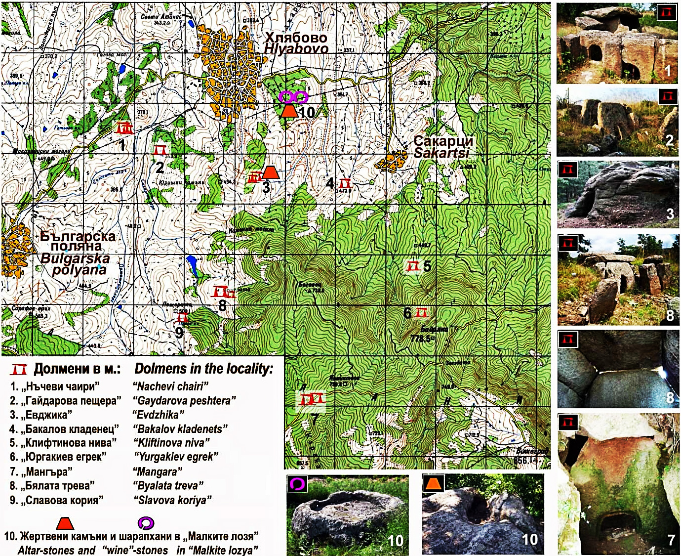 Dolmens map descr Sakar BG